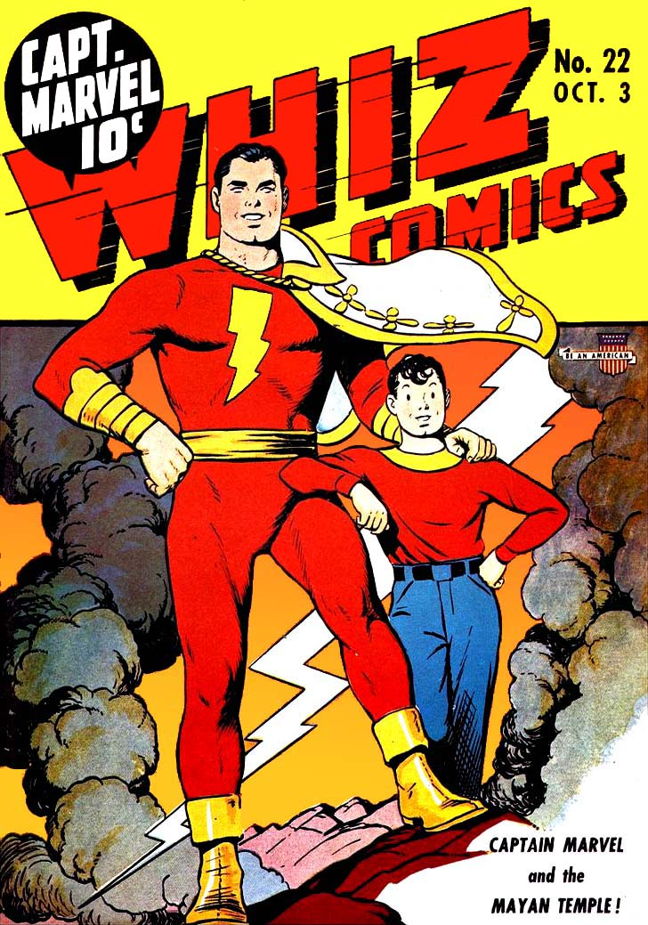 Captain Marvel and Billy strike an iconic pose on the cover of Whiz Comics number 22 (October, 1941). At the height of his popularity, Captain Marvel outsold every other superhero title on the newsstand, including DC's top three.